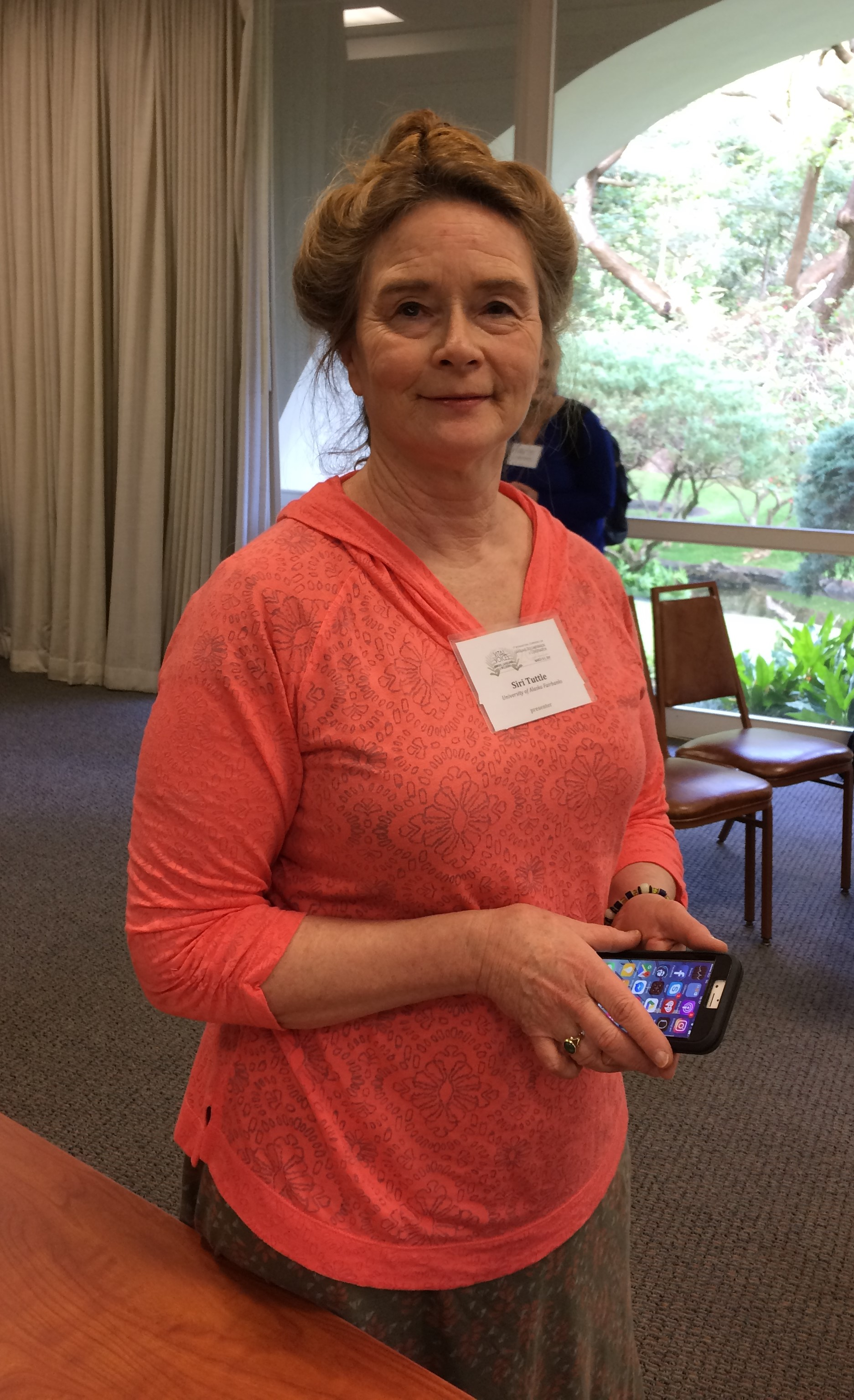 Photo taken at the 5th International Conference of Language Documentation and Conservation at the University of Hawai'i at Manoa